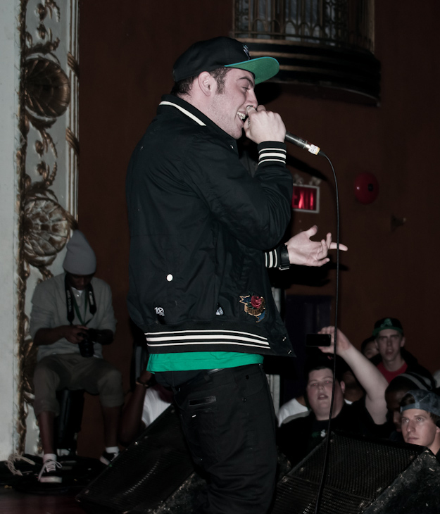 Derivative work of File:Mac_Miller_on_stage_-_Toronto.jpg. Simple crop.